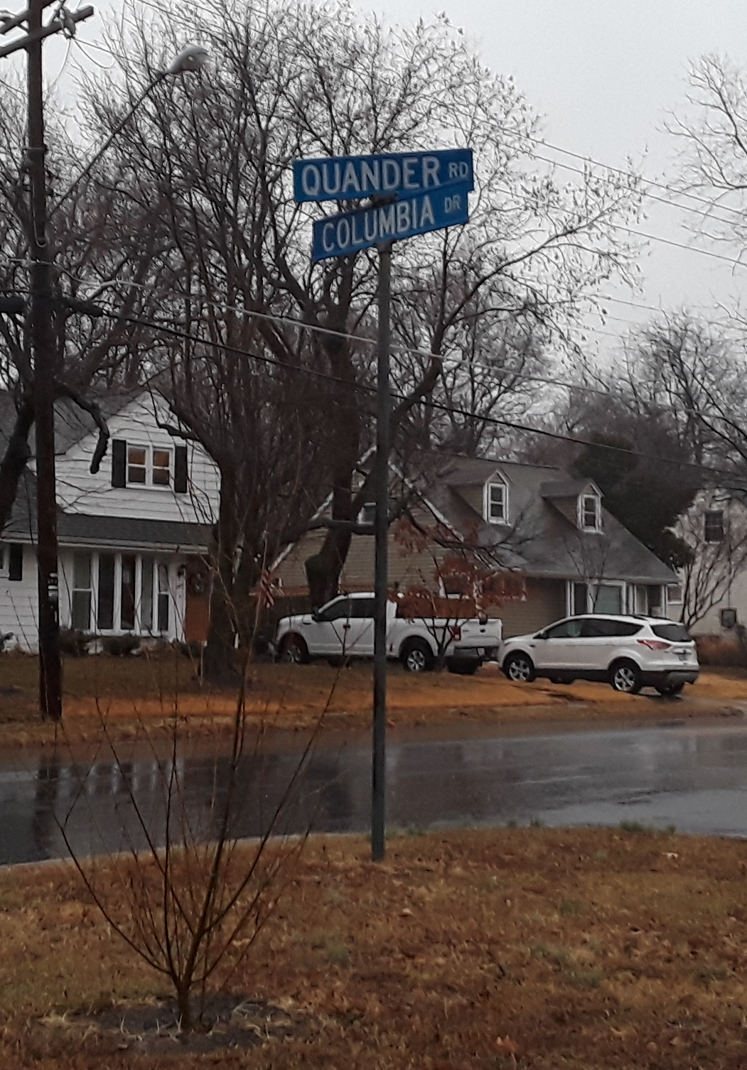 Street sign in Fairfax County, Virginia